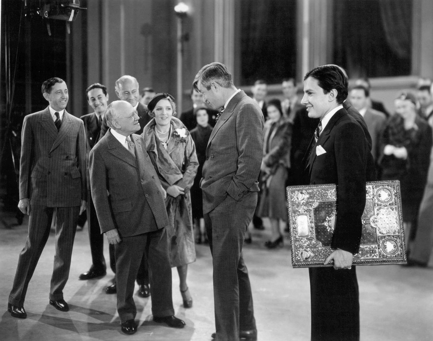 Photo of a celebration of Carl Laemmle's 25th anniversary in motion pictures. At back, from left-Will H. Hays, Irving Thalberg, Cecil B. DeMille. Front from left-Carl Laemmle, Mary Pickford, Will Rogers and Carl Laemmle, Jr. He received a scroll from industry members to commemorate the anniversary, which his son is holding.